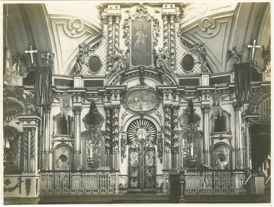 Troitski cathedral in Kolpino. Main iconostasis.